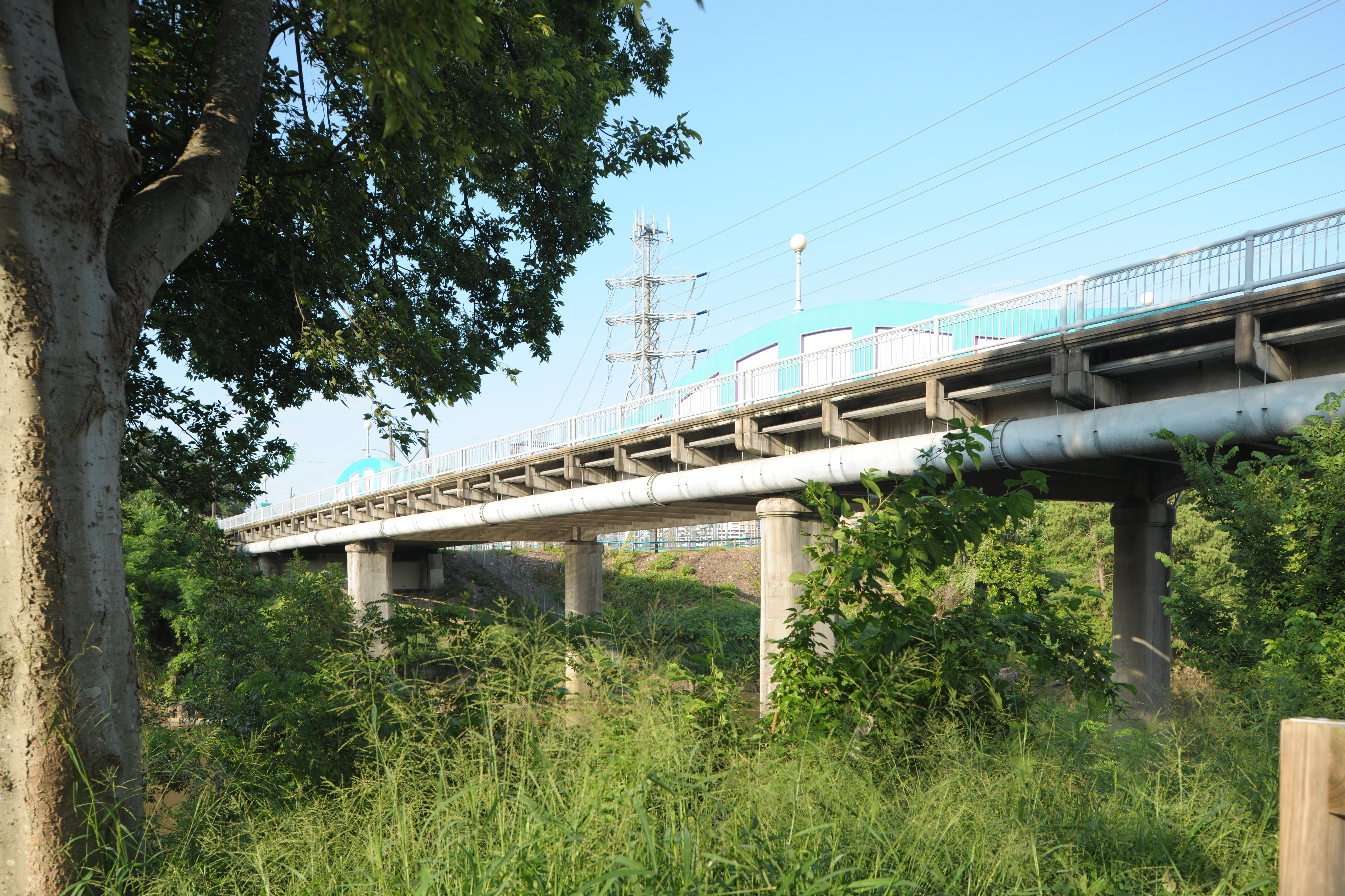 The McKee Street Bridge (1932) is the starting point for the Barrio History Walk and is on the National Register of Historic Places.